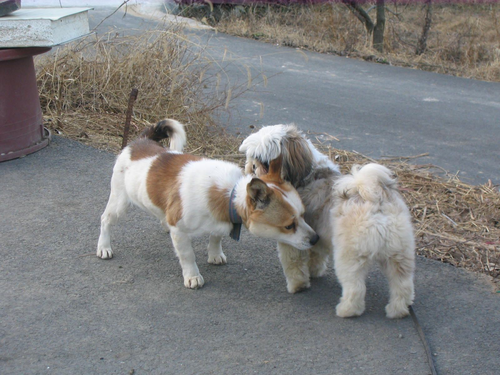 Two dogs, one a shih-tzu and one of indeterminate breed, greeting one another.